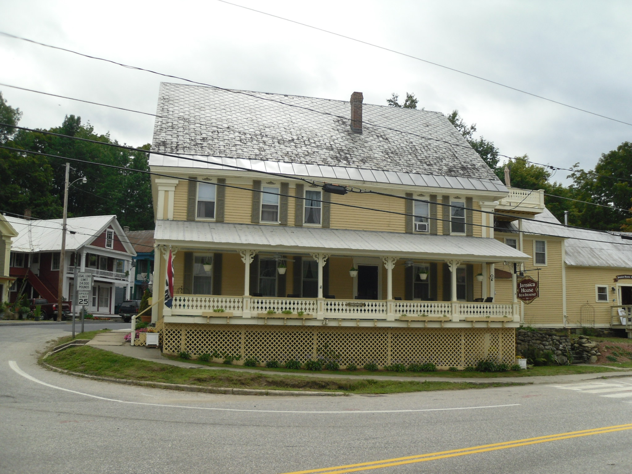 House in Jamaica, Vermont